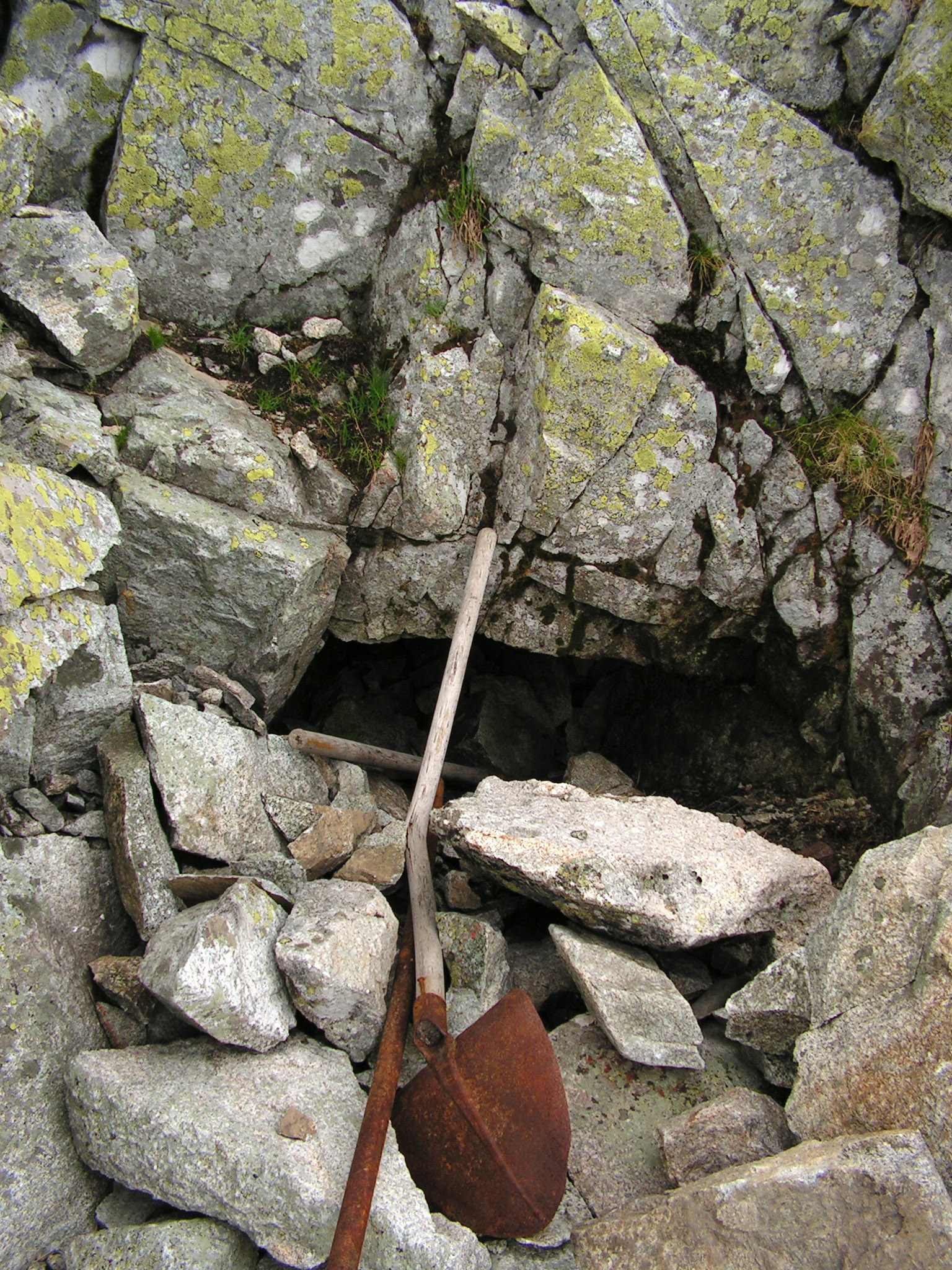 Krivánske bane – one of the old gold mines